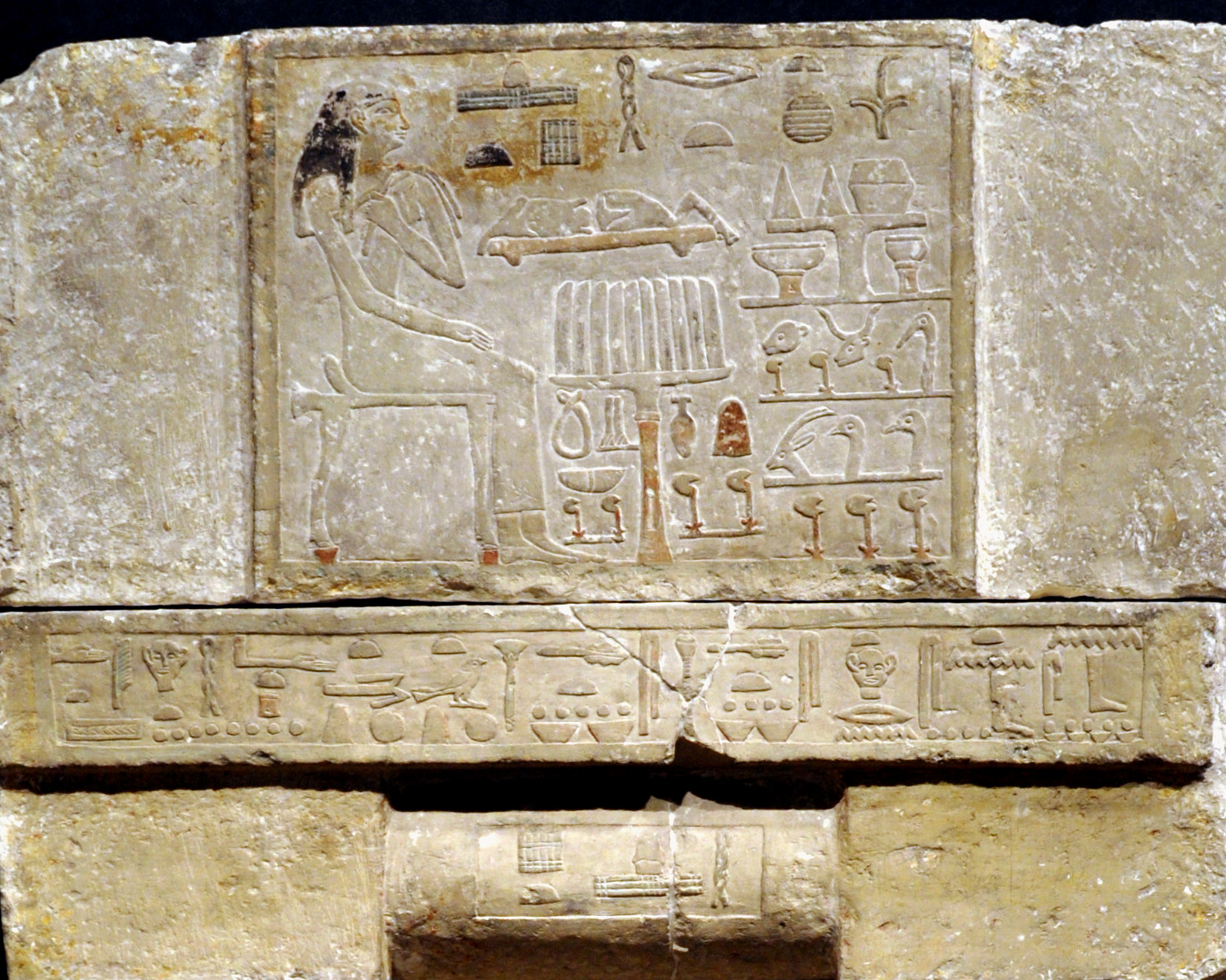 False door of Hetepet. Egypt, Giza, Old Kingdom, 5th–6th dynasty, c. 2400 BC; limestone; Museum: Liebieghaus, Frankfurt am Main, Inv. No. 722